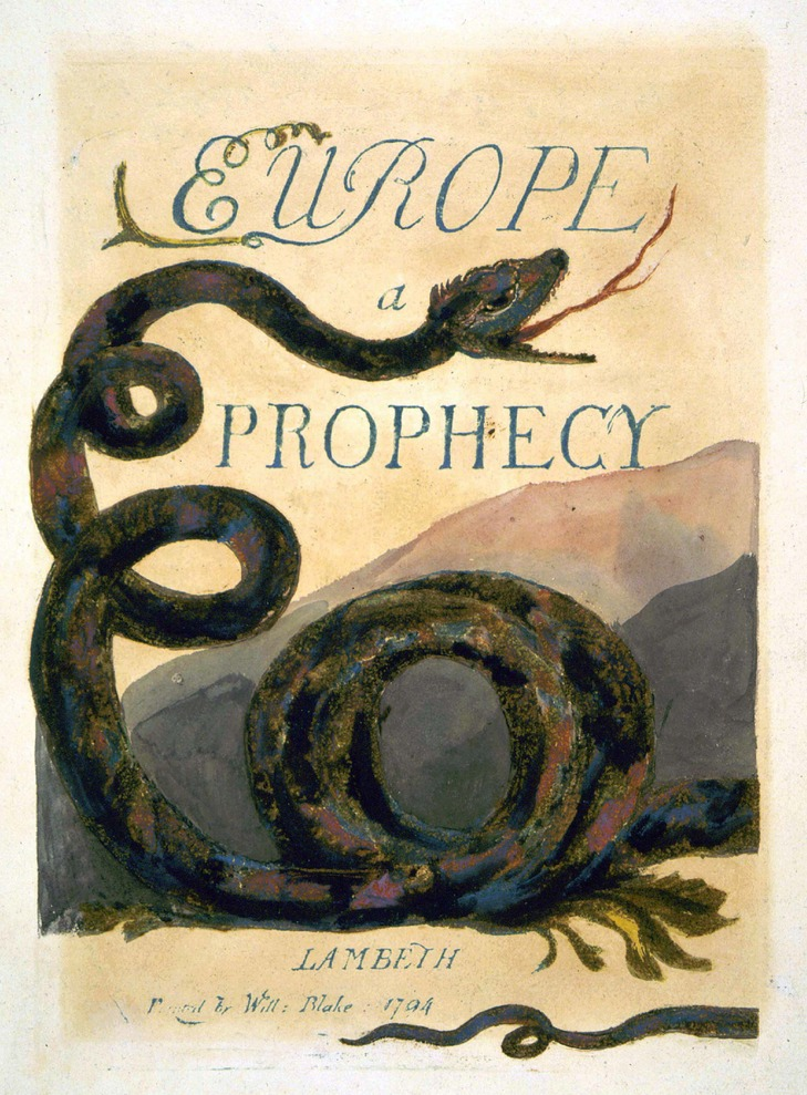 Europe a Prophecy copy B 1794 Glasgow University Library Title object 2